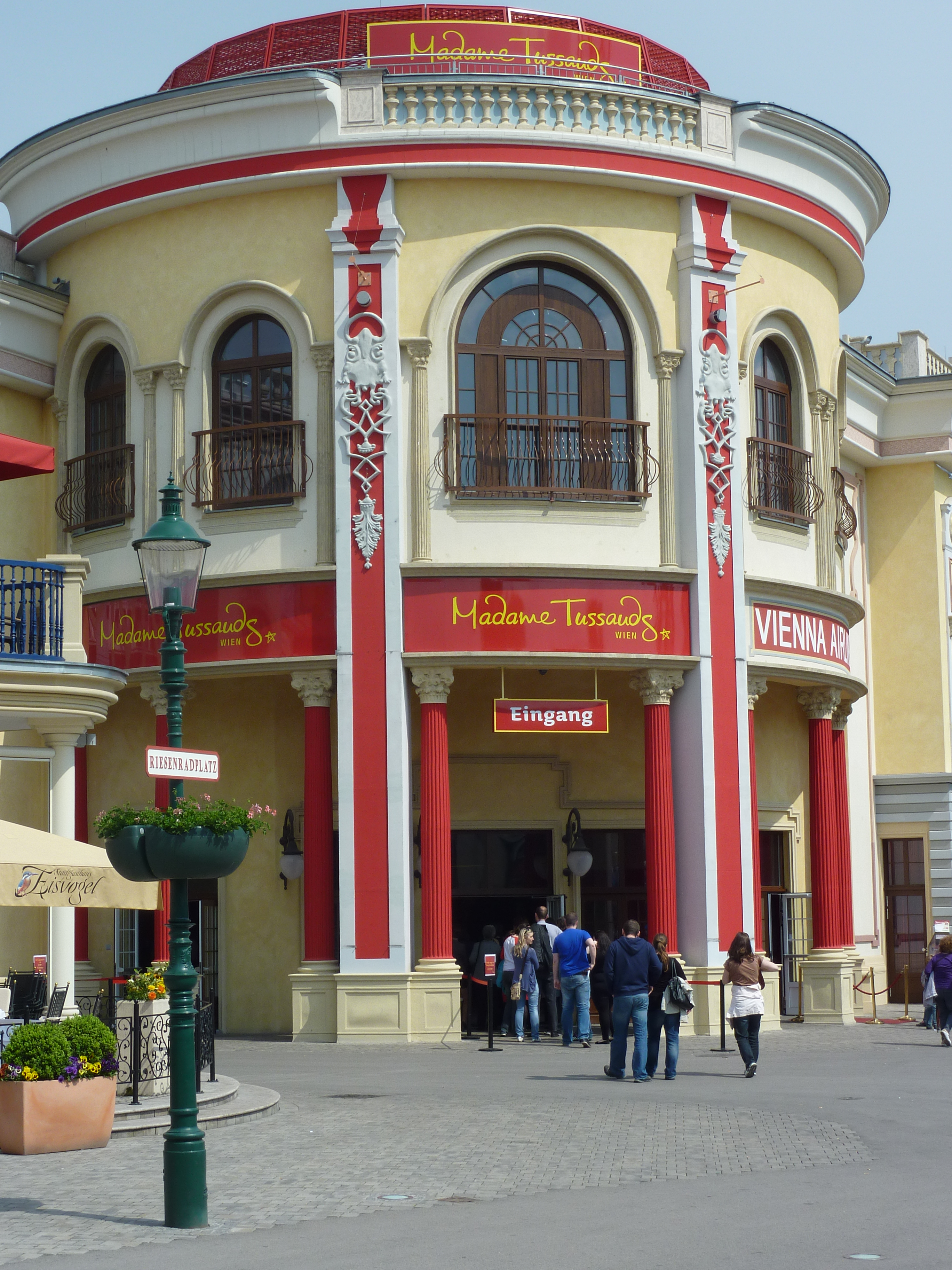 Entrance Building of Madame Tussauds waxworks in Vienna, Austria